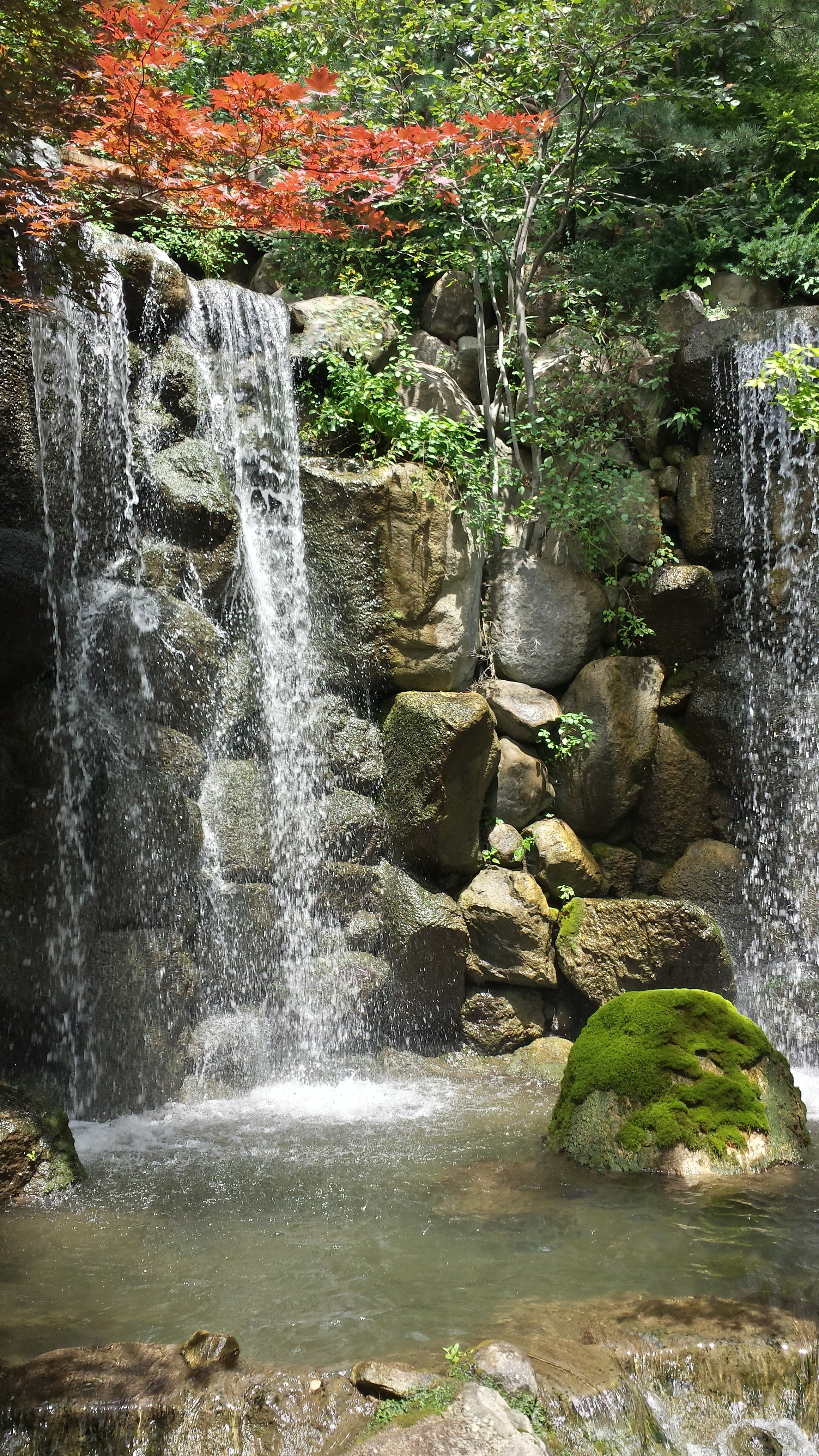 Waterfall at Anderson Japanese Gardens, Rockford, Illinois.